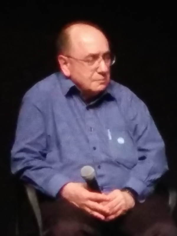 Ernie Gehr at a Q&A session at BAMPFA in Berkeley, California, United States